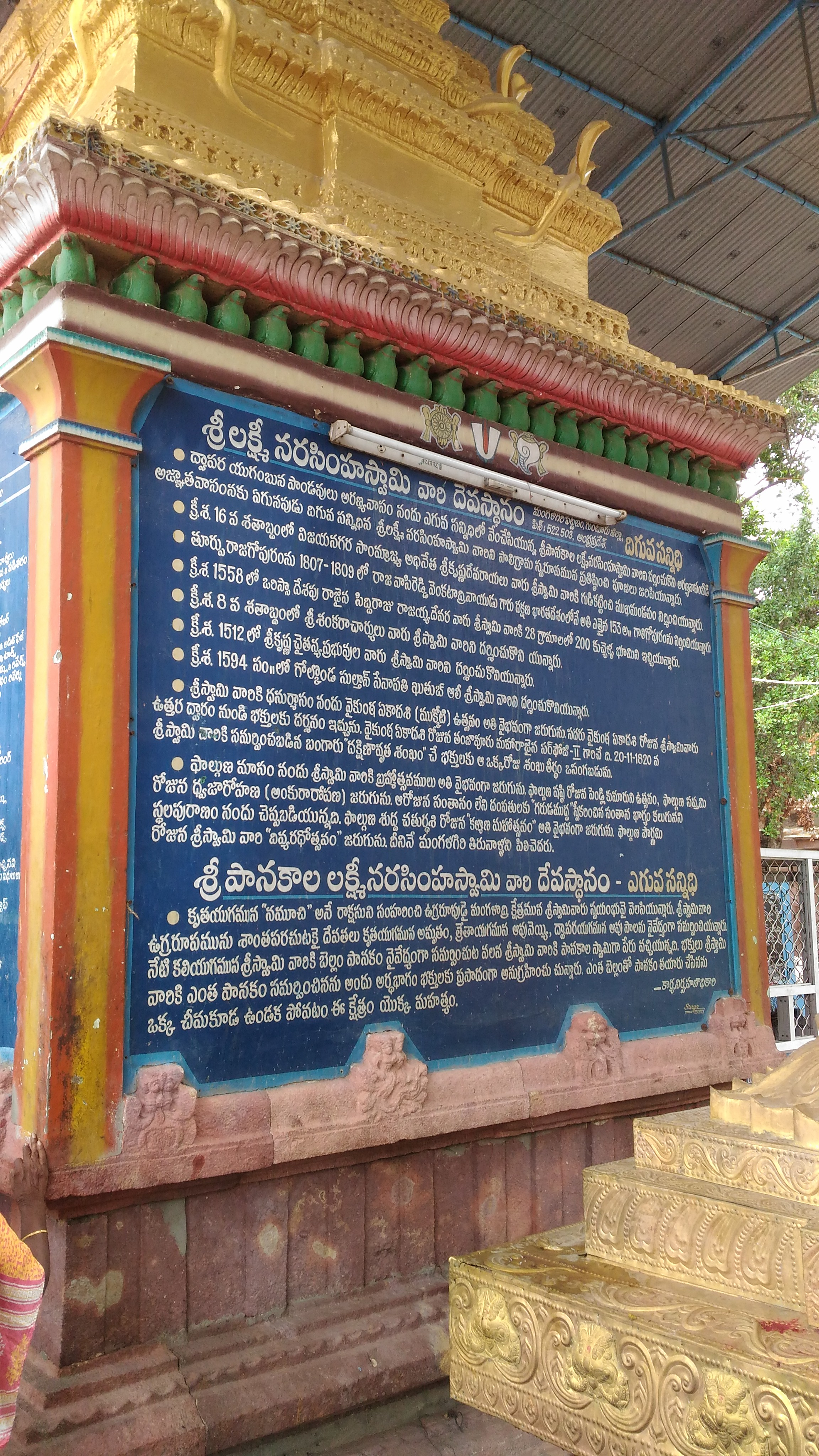 Sthalapuraanam